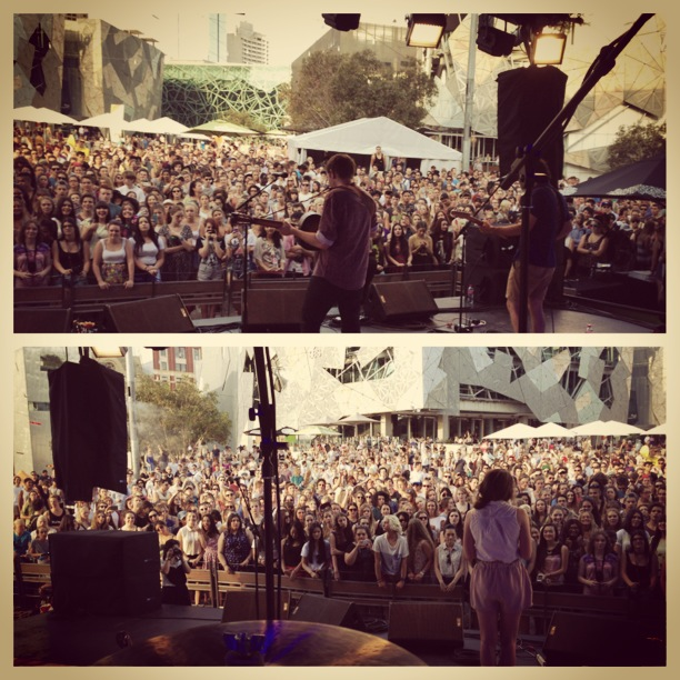 The Paper Kites playing at Federation Square in Melbourne, on a 40 degree day.